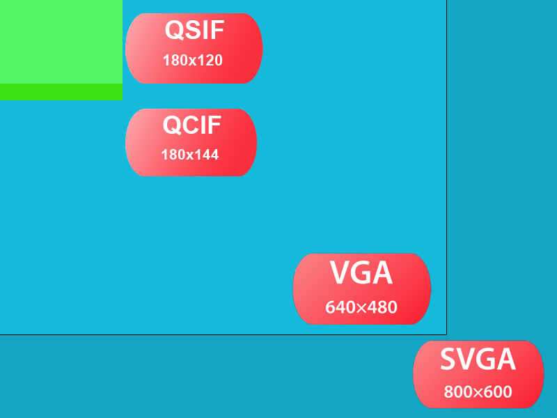 comparative of QCIF and QSIF